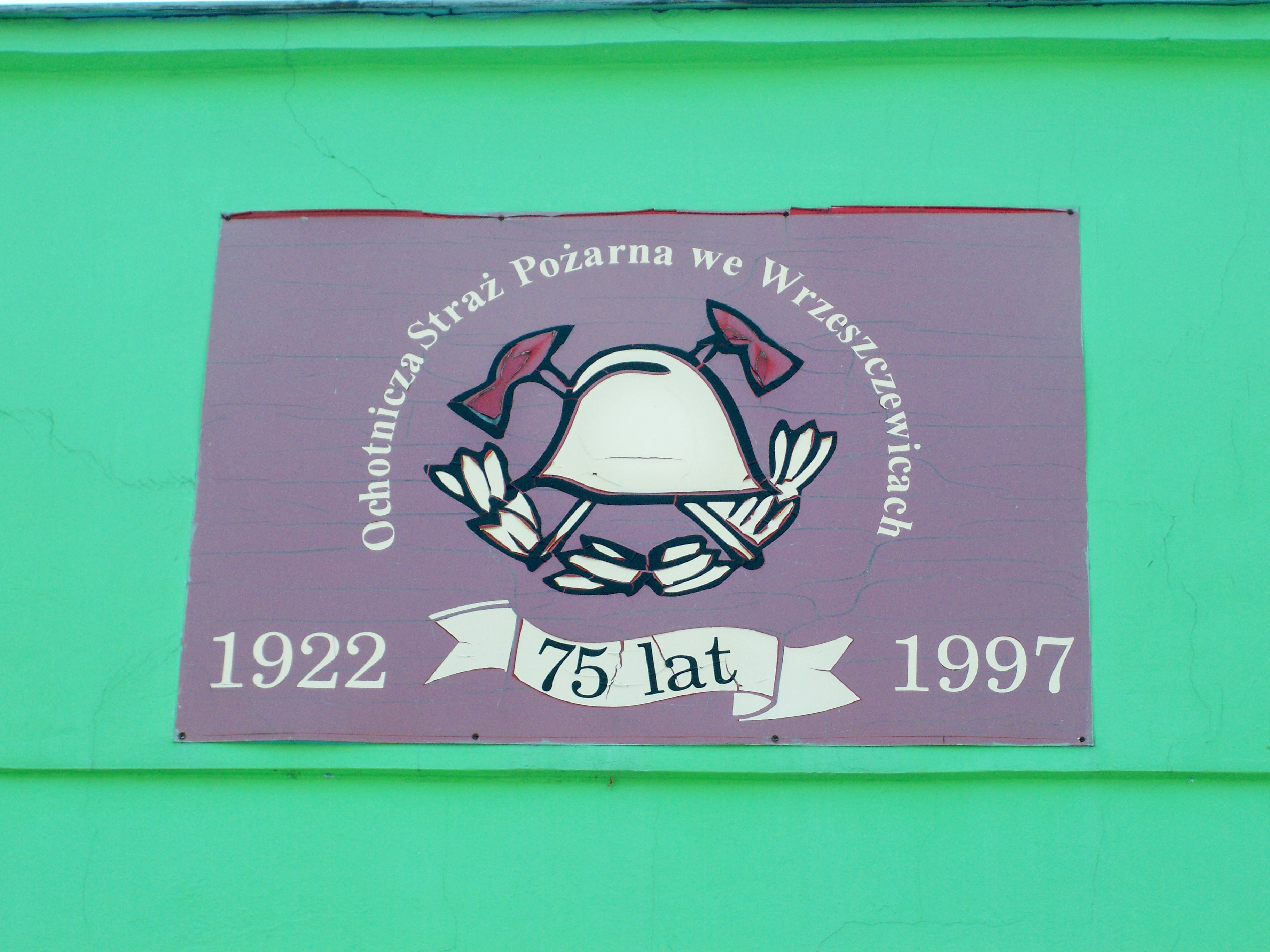 Herb Ochotniczej Straży Pożarnej w Wrzeszczewicach